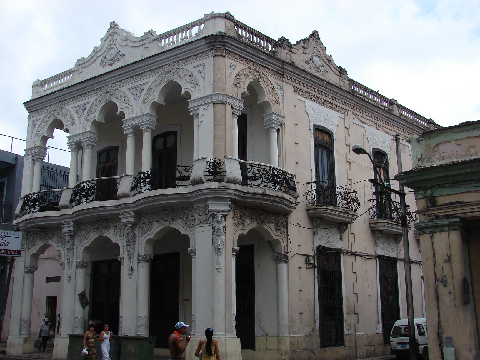 Mansion in Reina Street - Havana